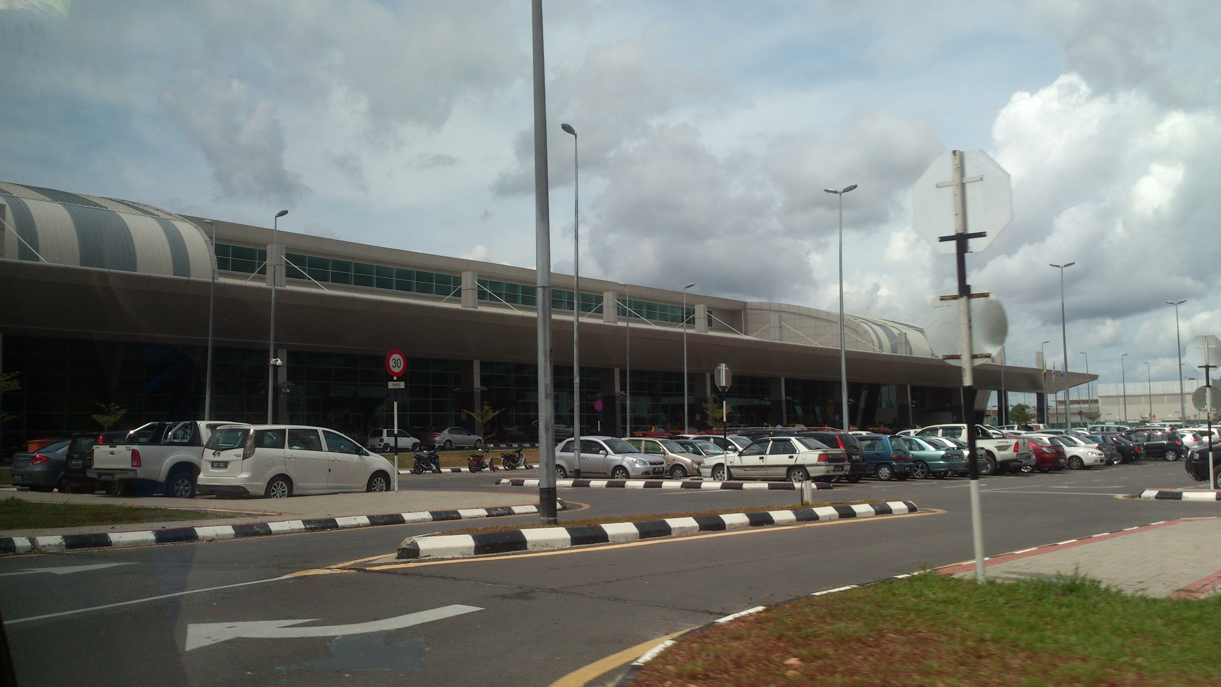 Newly expanded Sibu Airport.